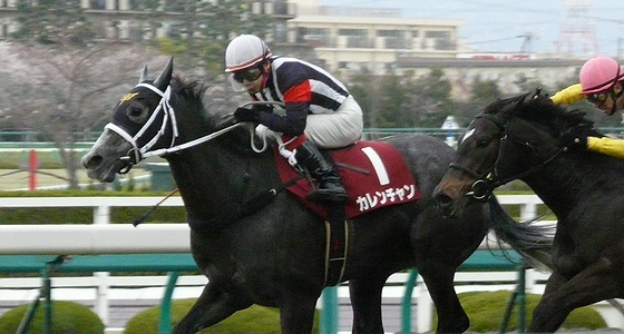 Curren-Chan20110409(2)